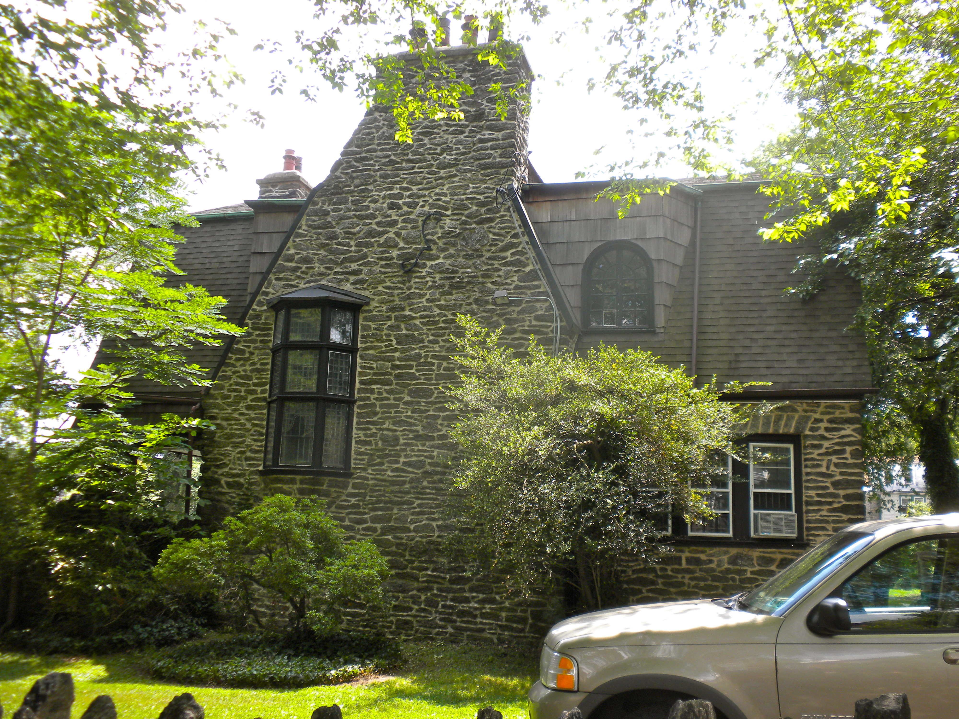 Sally Watson House on the NRHP since March 10, 1982. At 5128 Wayne Avenue in Germantown neighborhood of Northwest Philadelphia. Now used as a youth center or similar